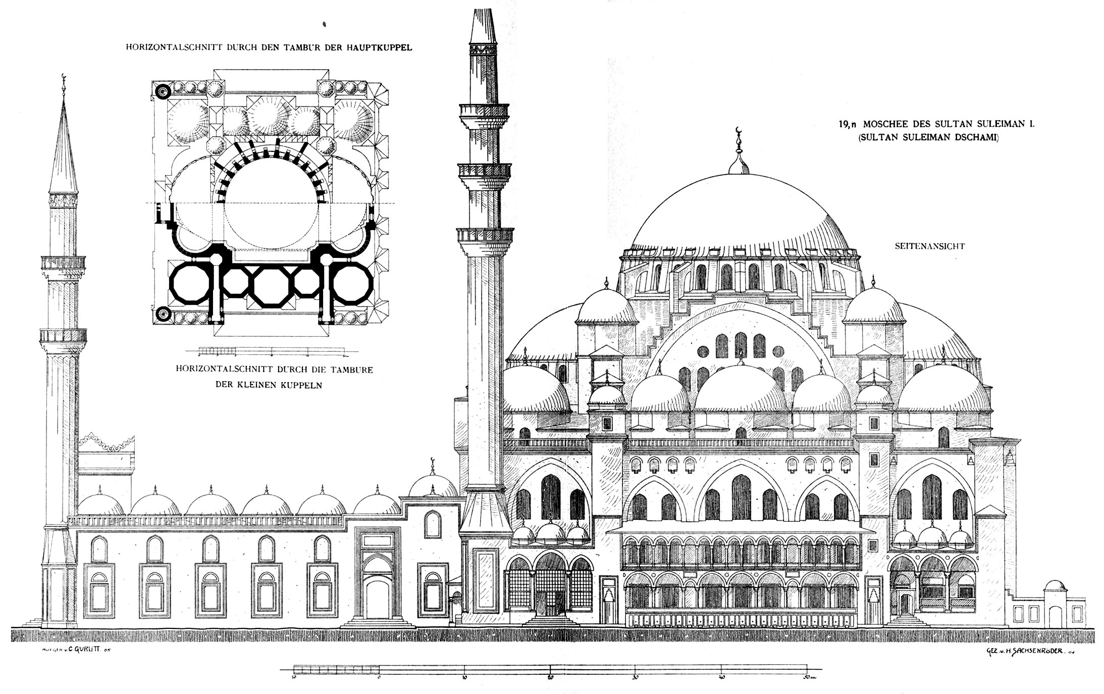 Elevation and plan of the Süleymaniye Mosque, Istanbul